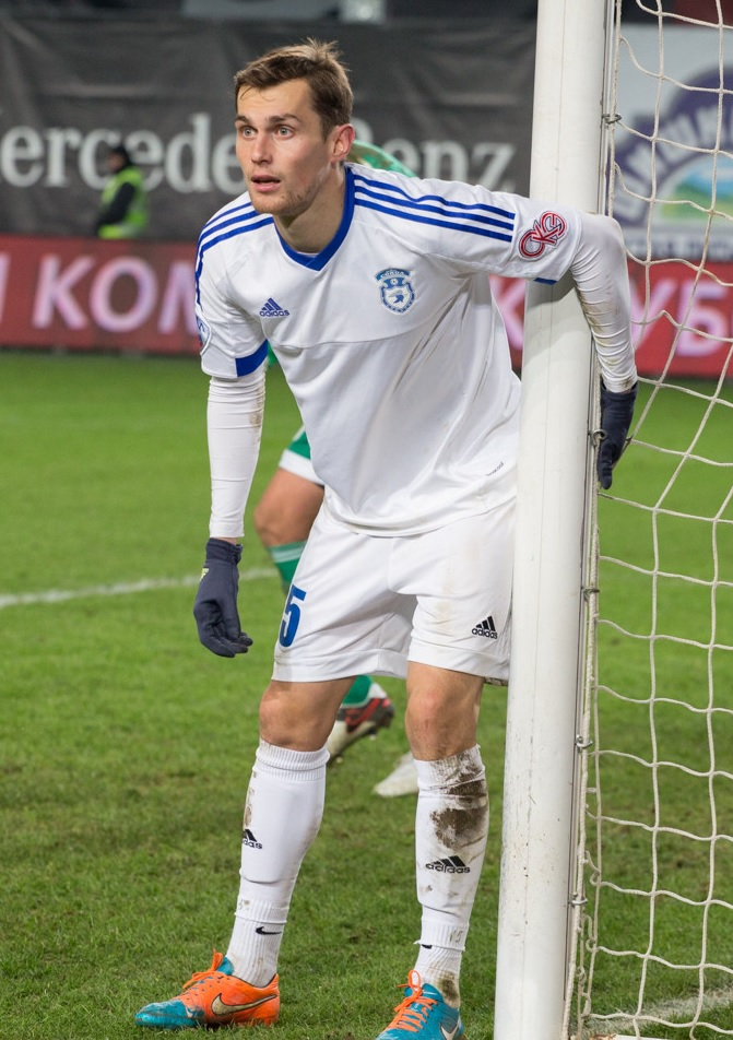 Andrei Semyonov with FC Sokol Saratov in a game against FC Dynamo Moscow.